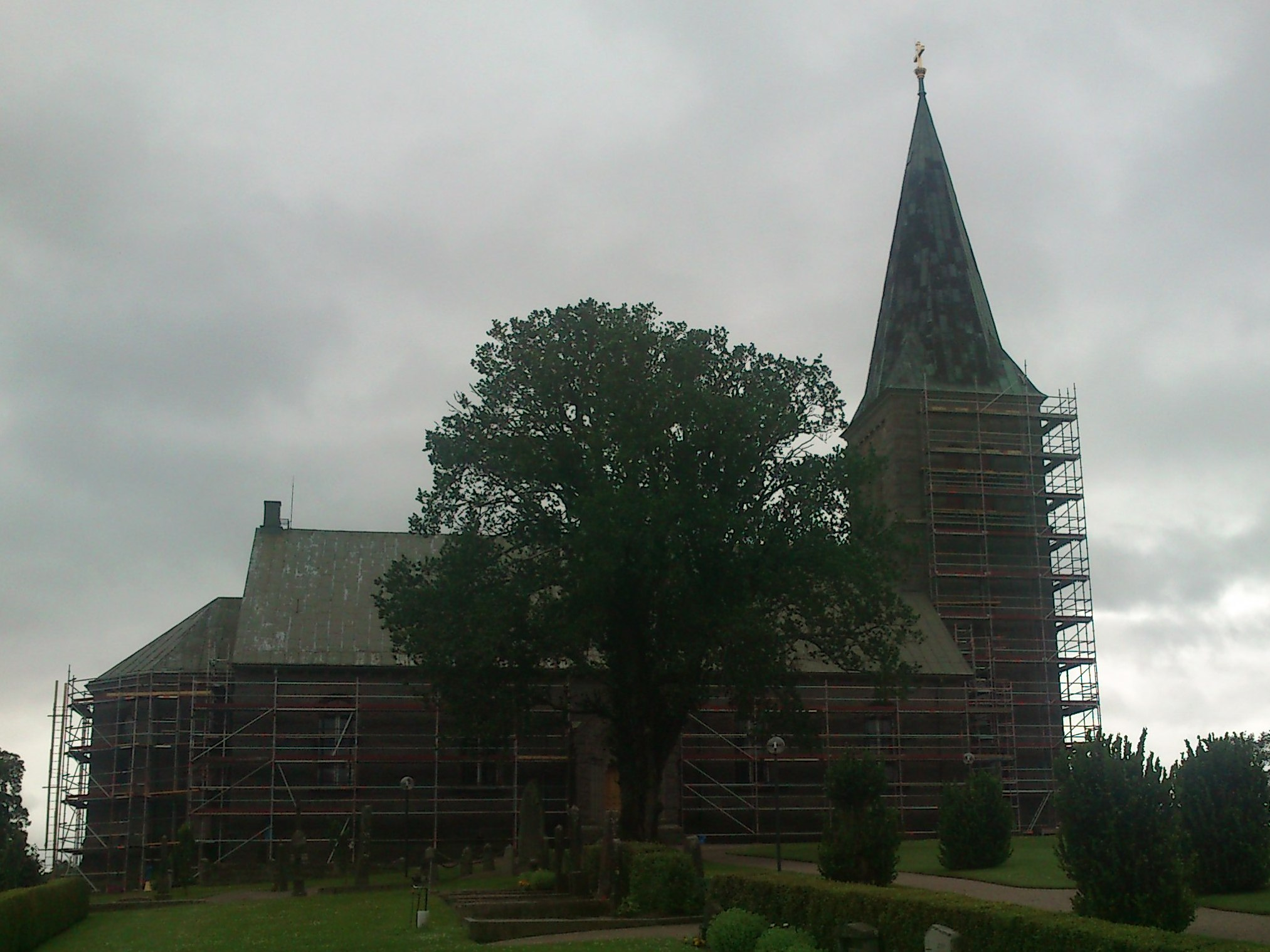 Locknevi church surrounded by scaffolding